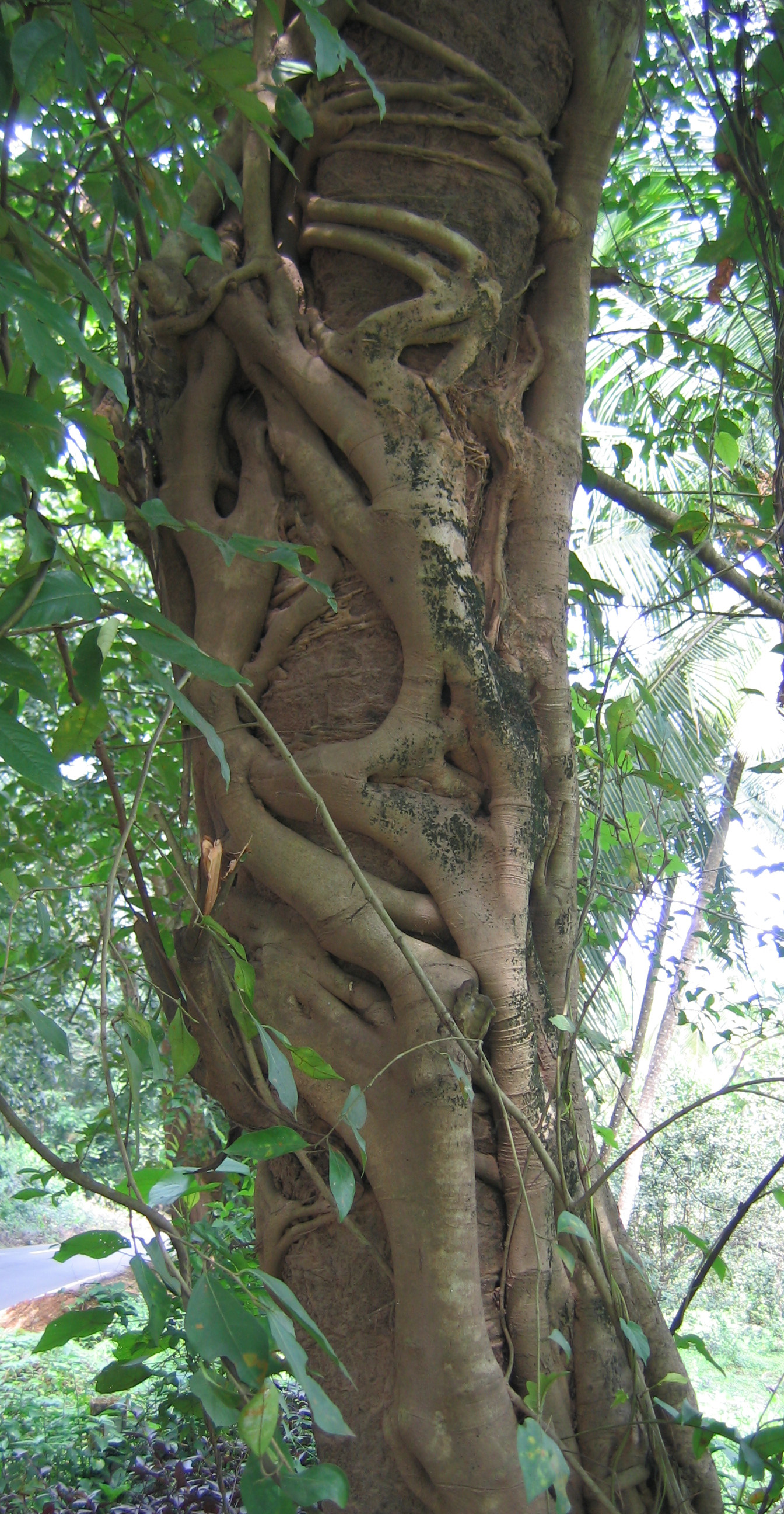 Strangler fig on a tree